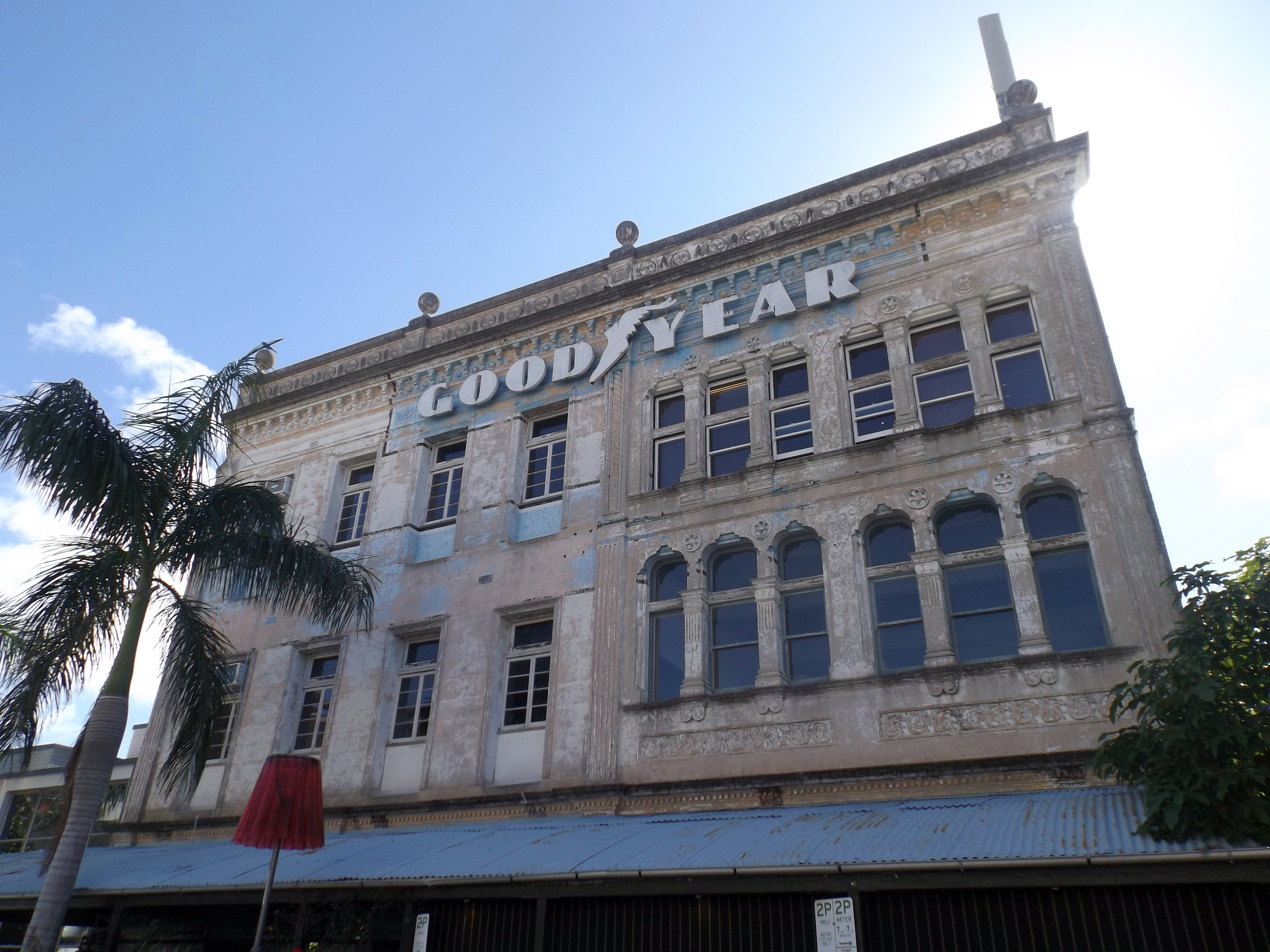 Photo of Taylor-Heaslop Building from Logan Road at Woolloongabba, Brisbane, Queensland, Australia.